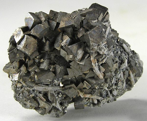 Arsenopyrite Locality: Freiberg, Freiberg District, Erzgebirge, Saxony, Germany (Locality at ) Size: 4.3 x 3.8 x 1.9 cm. An old Freiburg specimen of sharp crystals of arsenopyrite, to 0.5 cm, intergrown with slender quartz crystals. From the well-known California collection of Charles Hansen.